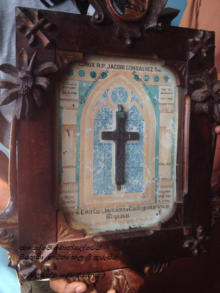 The cross of fr. Jacome Gonsalves which was found buried in his tomb